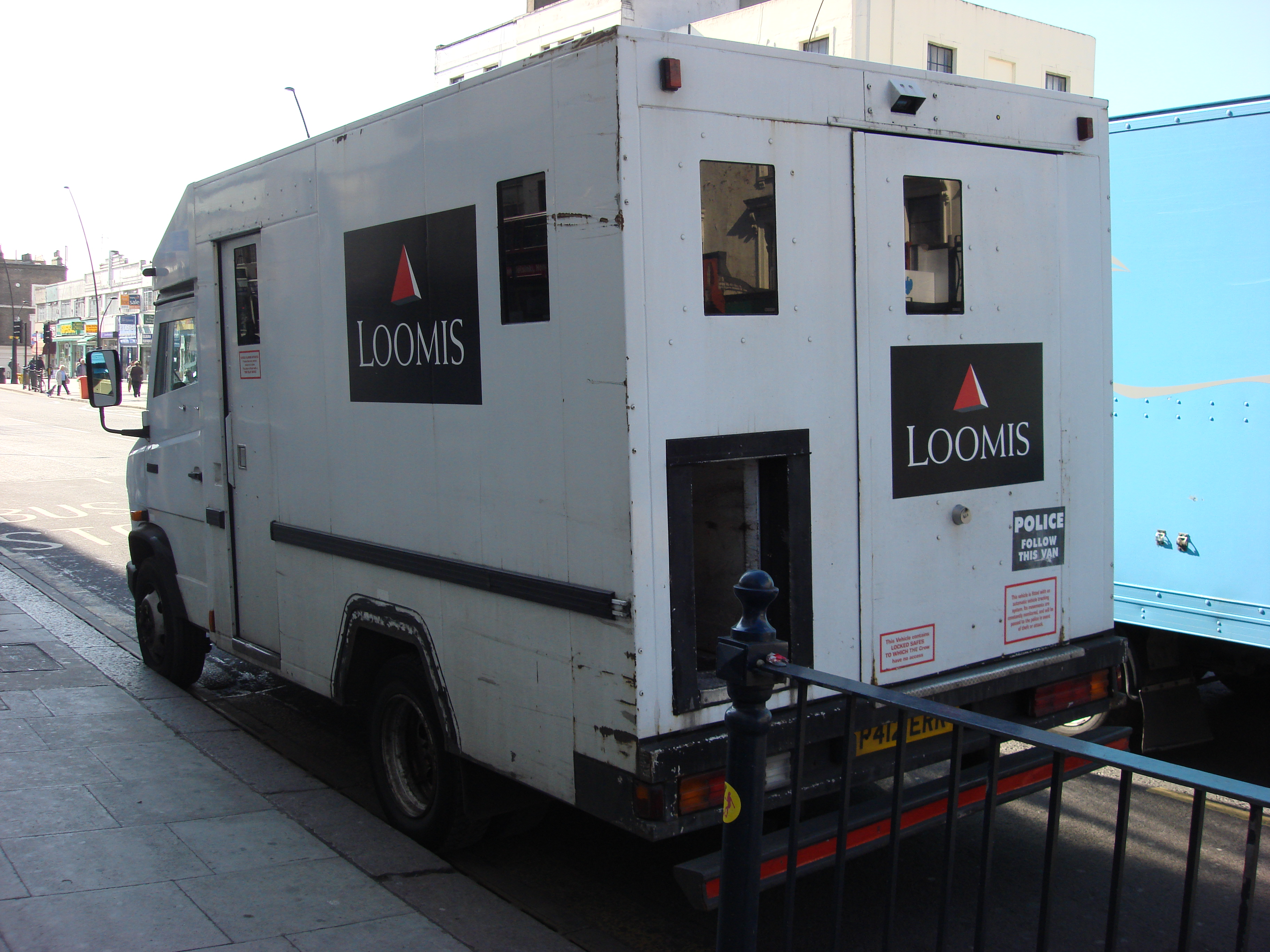 A Loomis owned, Mercedes-Benz T2 Armoured Van on Kilburn High Road, London, UK